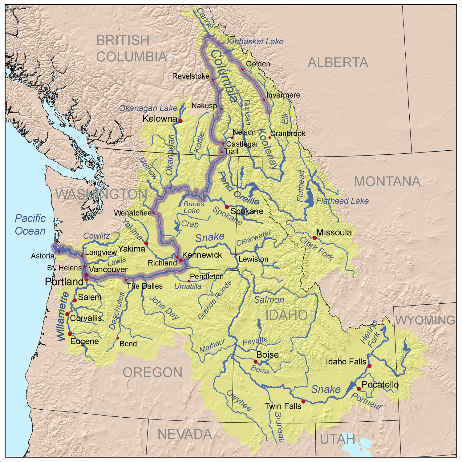 This is a map of the Columbia River watershed with the Columbia River highlighted.